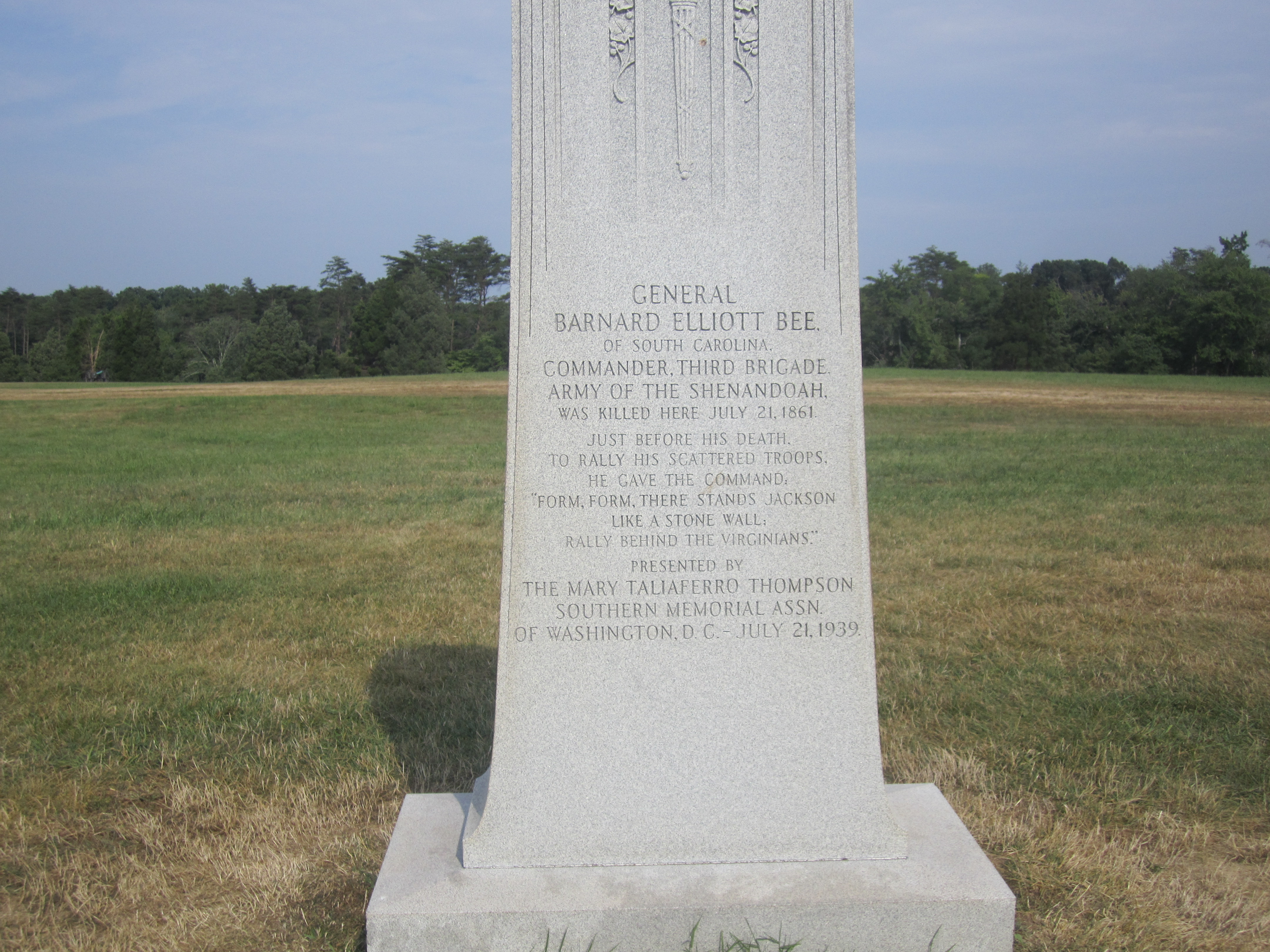 I took photo with Canon camera of Barnard Bee Monument at Manassas National Battlefield Park in Manassas, VA.